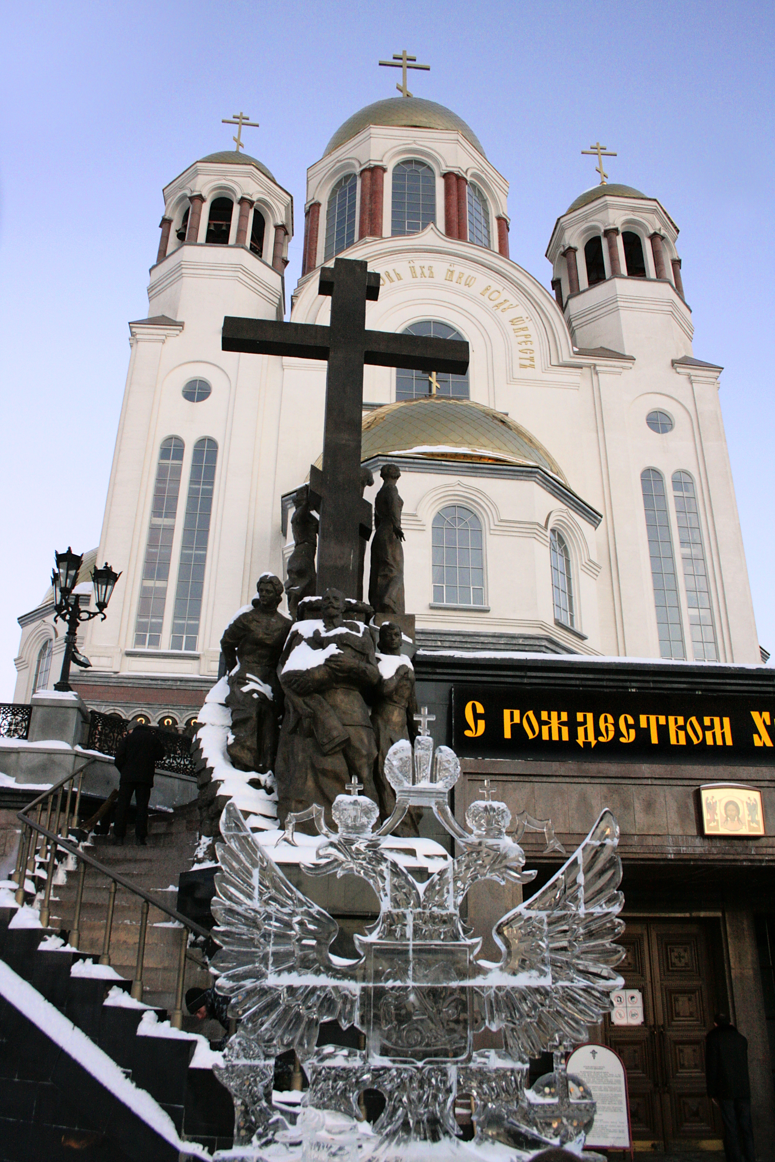 Екатеринбург 0017 Храм-На-Крови